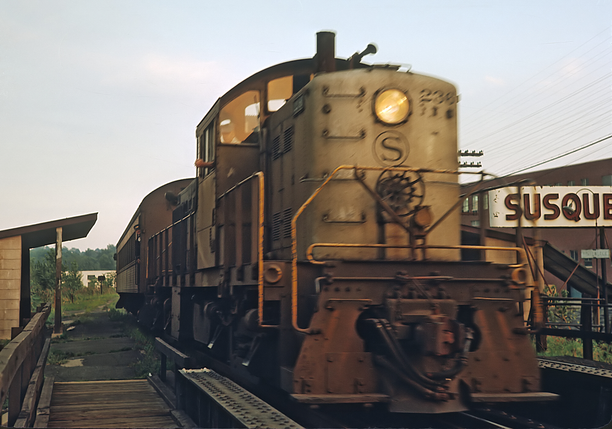 NYS&W Alco 236 suburban train at Hackensack's River Street Station on September 3, 1965, A Roger Puta Photograph